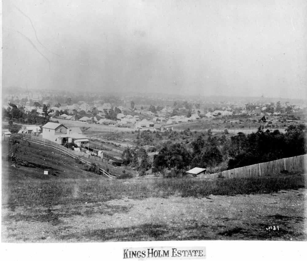 Kings Holm Estate, Highgate Hill, looking towards Brisbane, ca.1889 Sloping land offered for housing. Some of the lots are already fenced and the property in the foreground has a timber home with tanks, sheds and an outhouse.Settlement is closer in the middle distance.